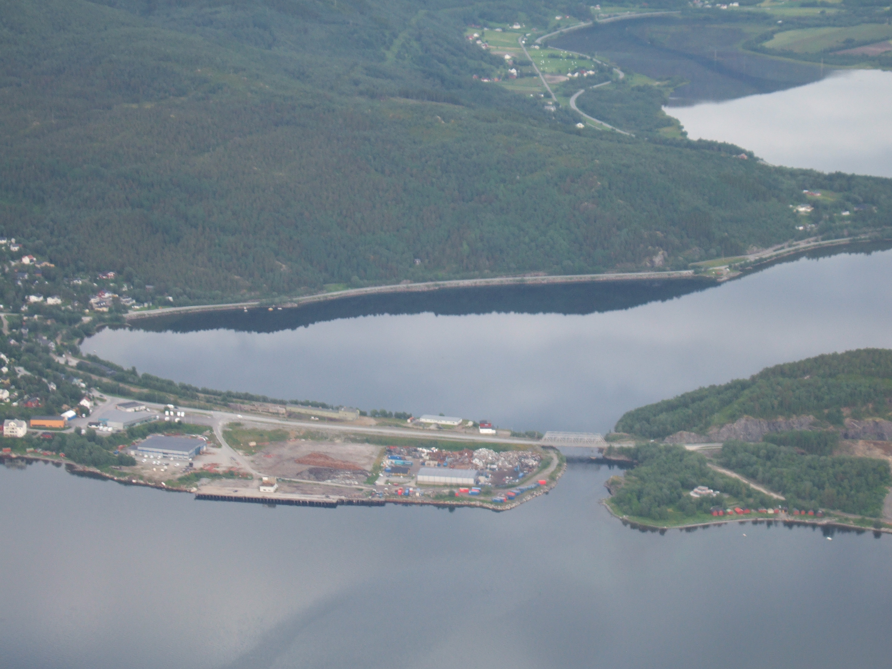 Finneidstraumen is the end of Sulitjelmavassdraget waterway in Fauske, Nordland, Norway.